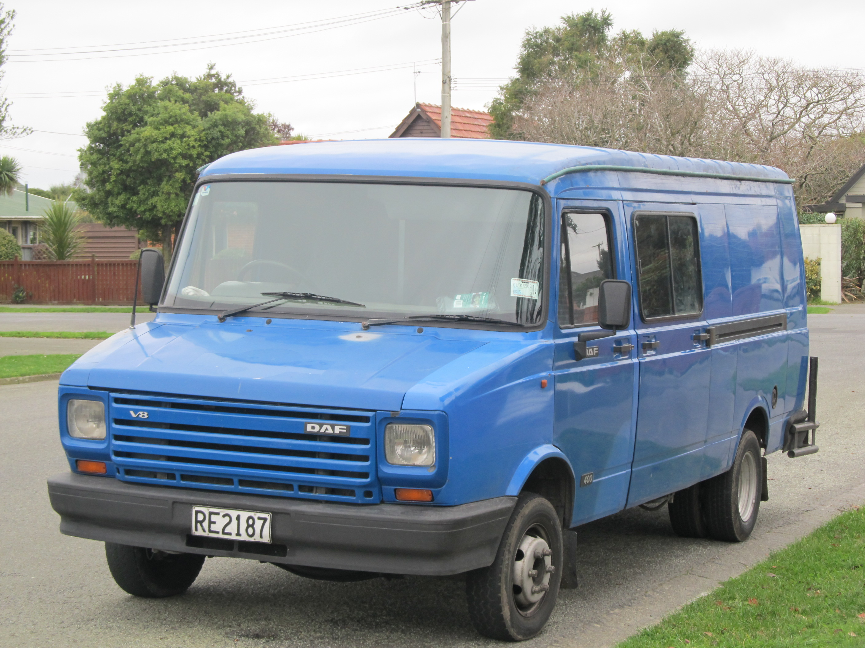 RE2187 Another one! I presume these were marketed as DAF and not Leyland DAF because the Leyland name wasn't overly well liked any more in NZ by 1991, and the importers were trying to hide the fact they were ancient British vans! The NZ Ambulance Board seemed to like them, however, as most ambulances in NZ in the early to mid 1990s were these...